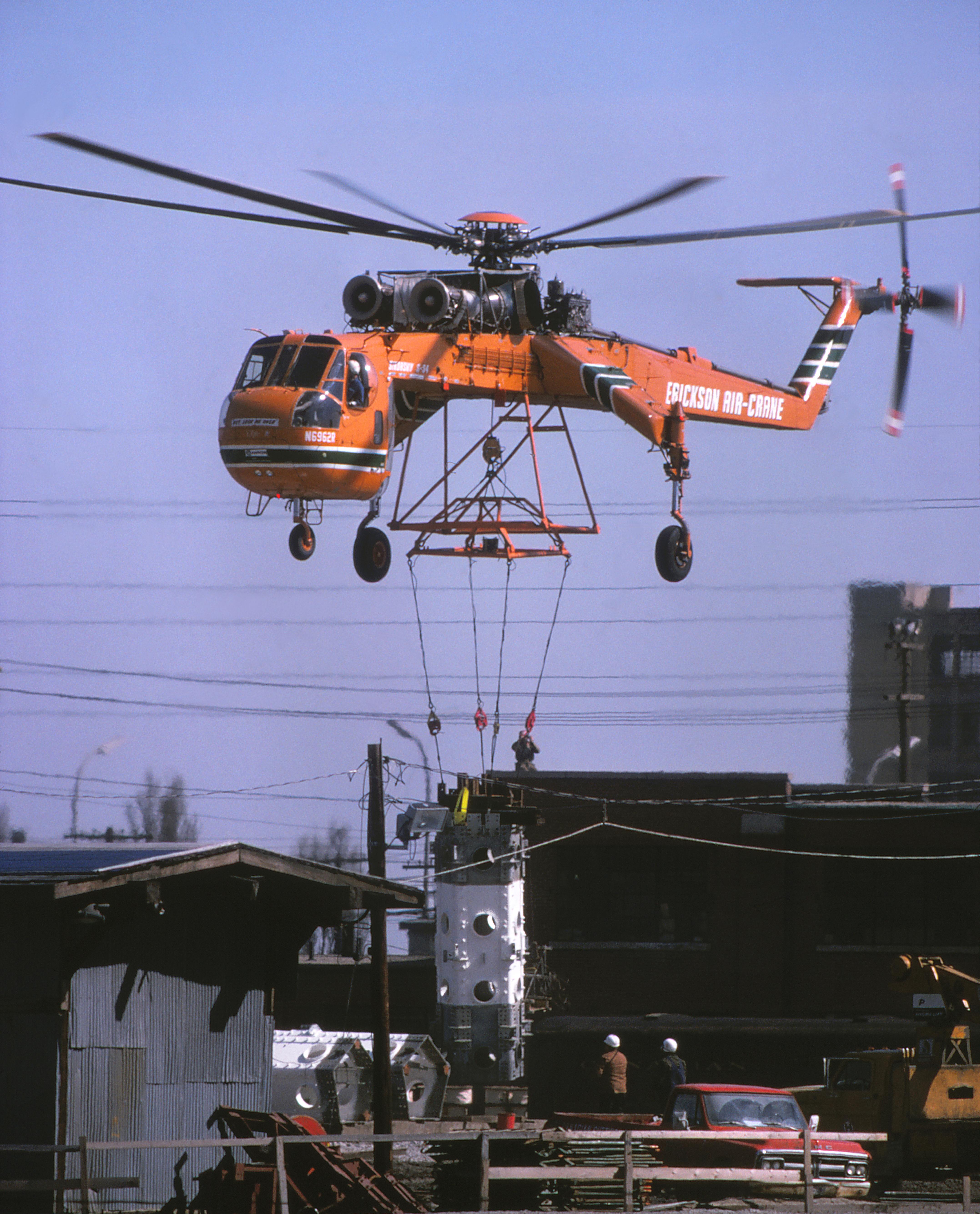 Sikorsky S-64 Skycrane helicopter "Olga", used in construction of upper section of Toronto's CN Tower, March 1975. (Digitized from original Kodachrome.)